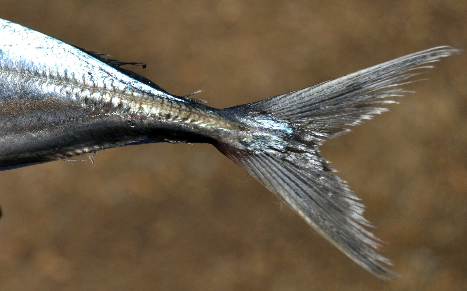 Decapterus macarellus from traditional market in Bogor, West Java, Indonesia. Caudal region.